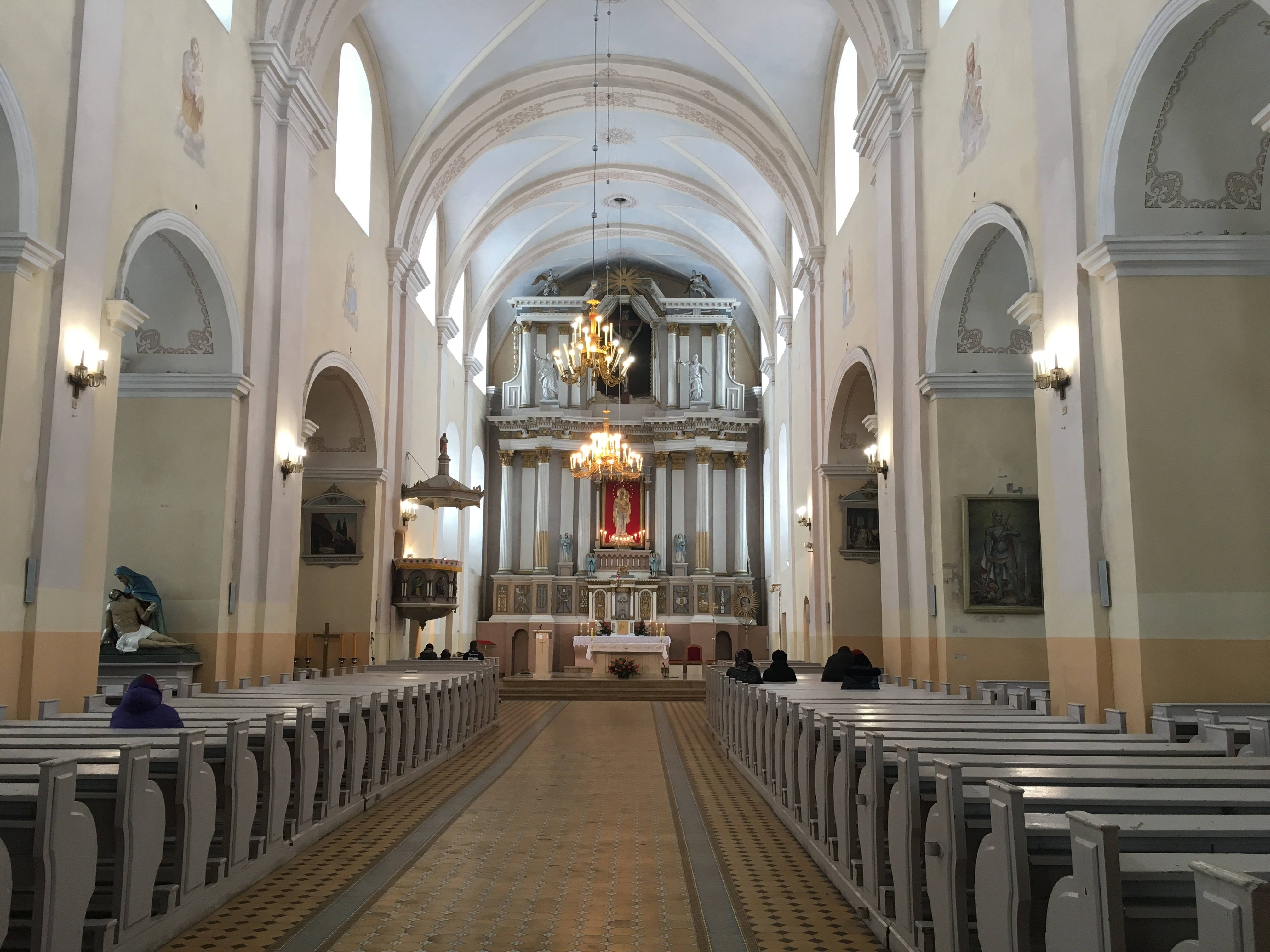 Interior of the Church of the Assumption of The Holy Virgin Mary, Raseiniai, Lithuania